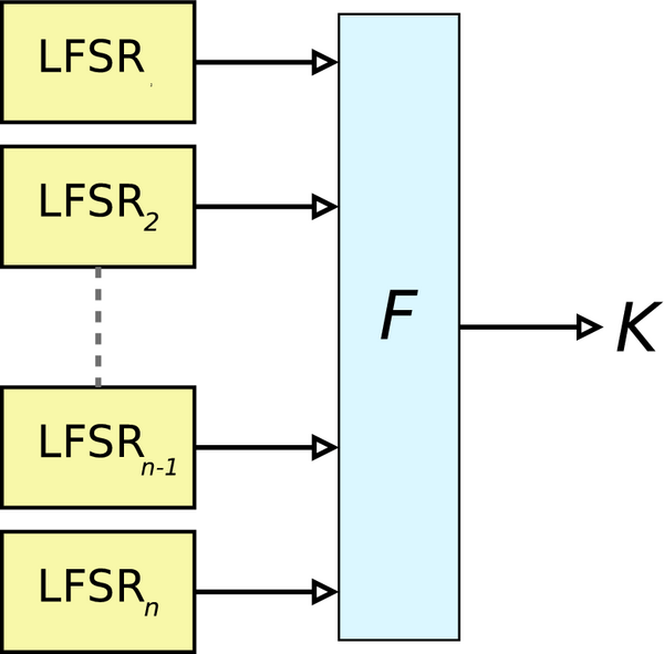 A general nonlinear combination generator. F is a some boolean function with n inputs.